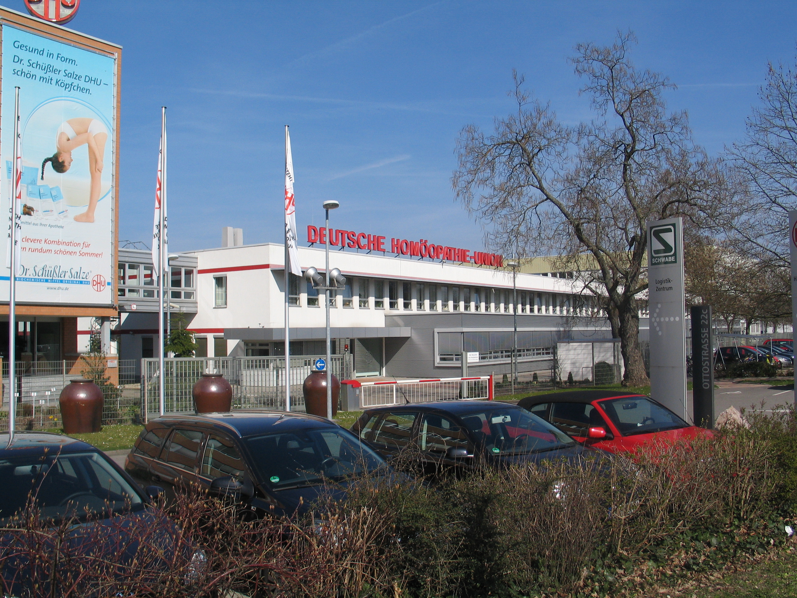 German Homoeopathy Union (DHU)